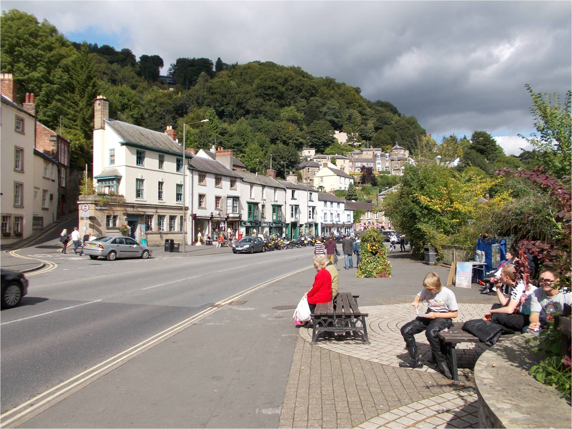 Town centre, Matlock Bath